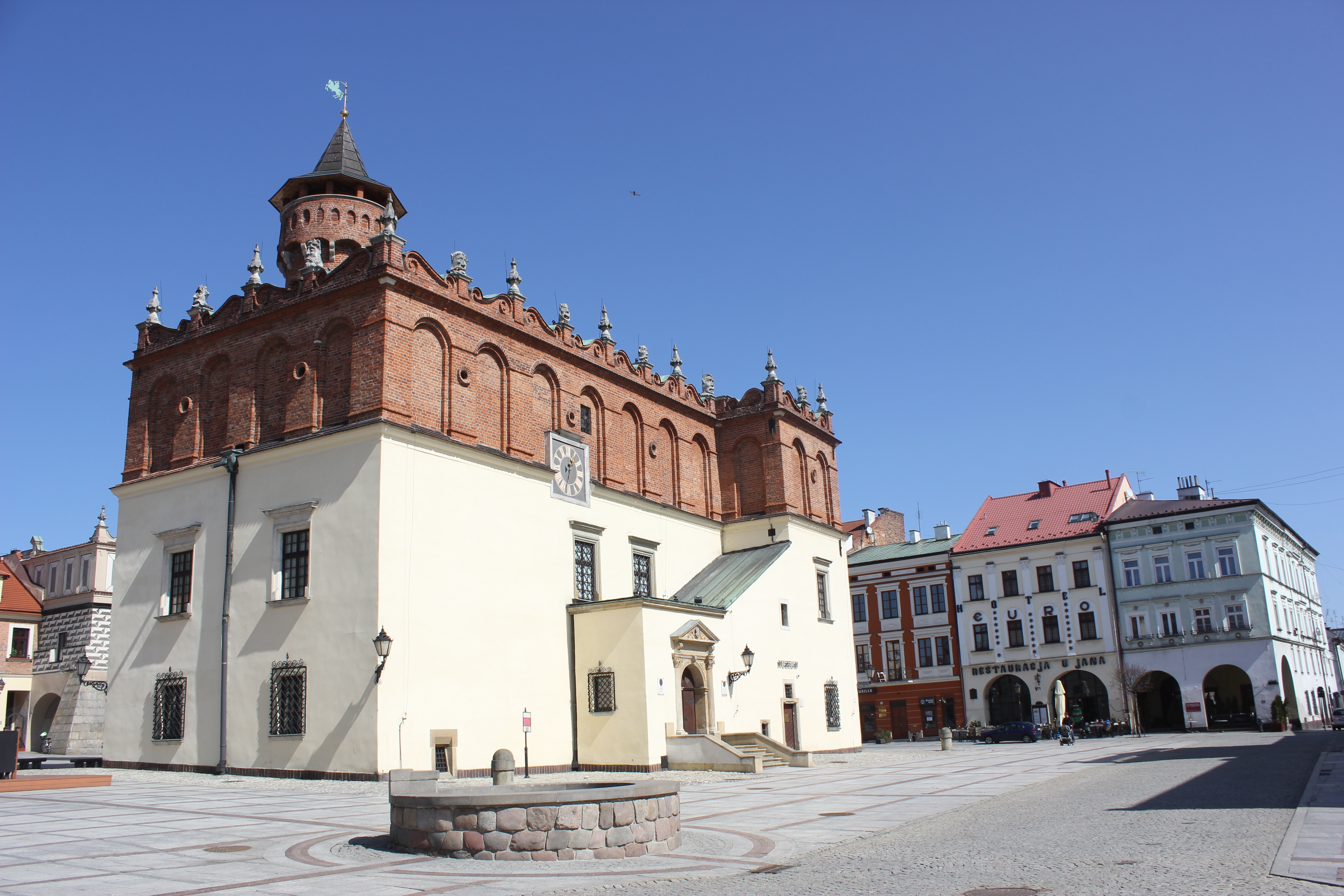 Tarnów - Town hall